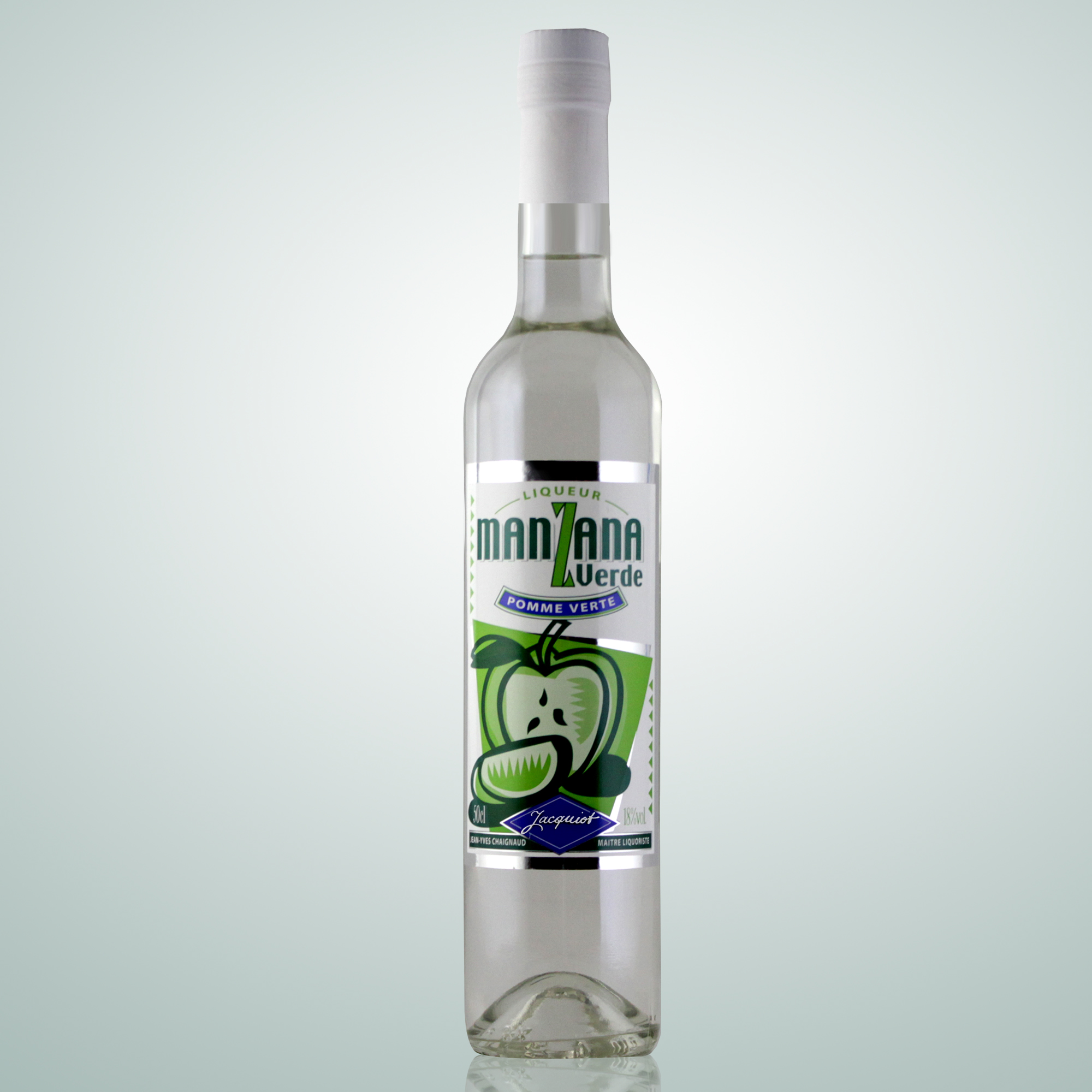 Manzana Verde Jacquiot, apple liqueur